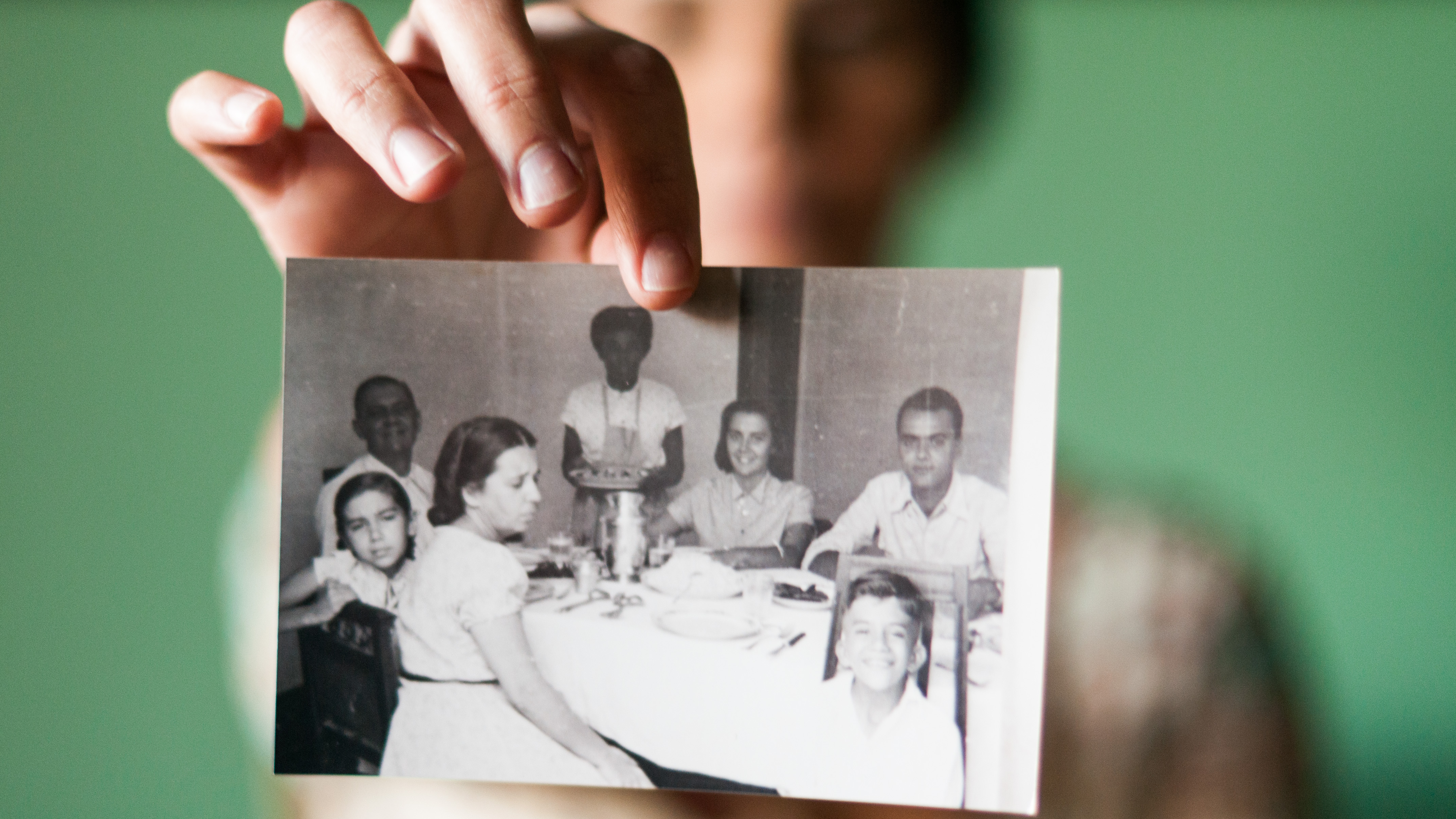 Portrait of Adriana Lisboa holding a picture from the family album. Still from the film “Lisboa” by Eduardo Montes-Bradley.